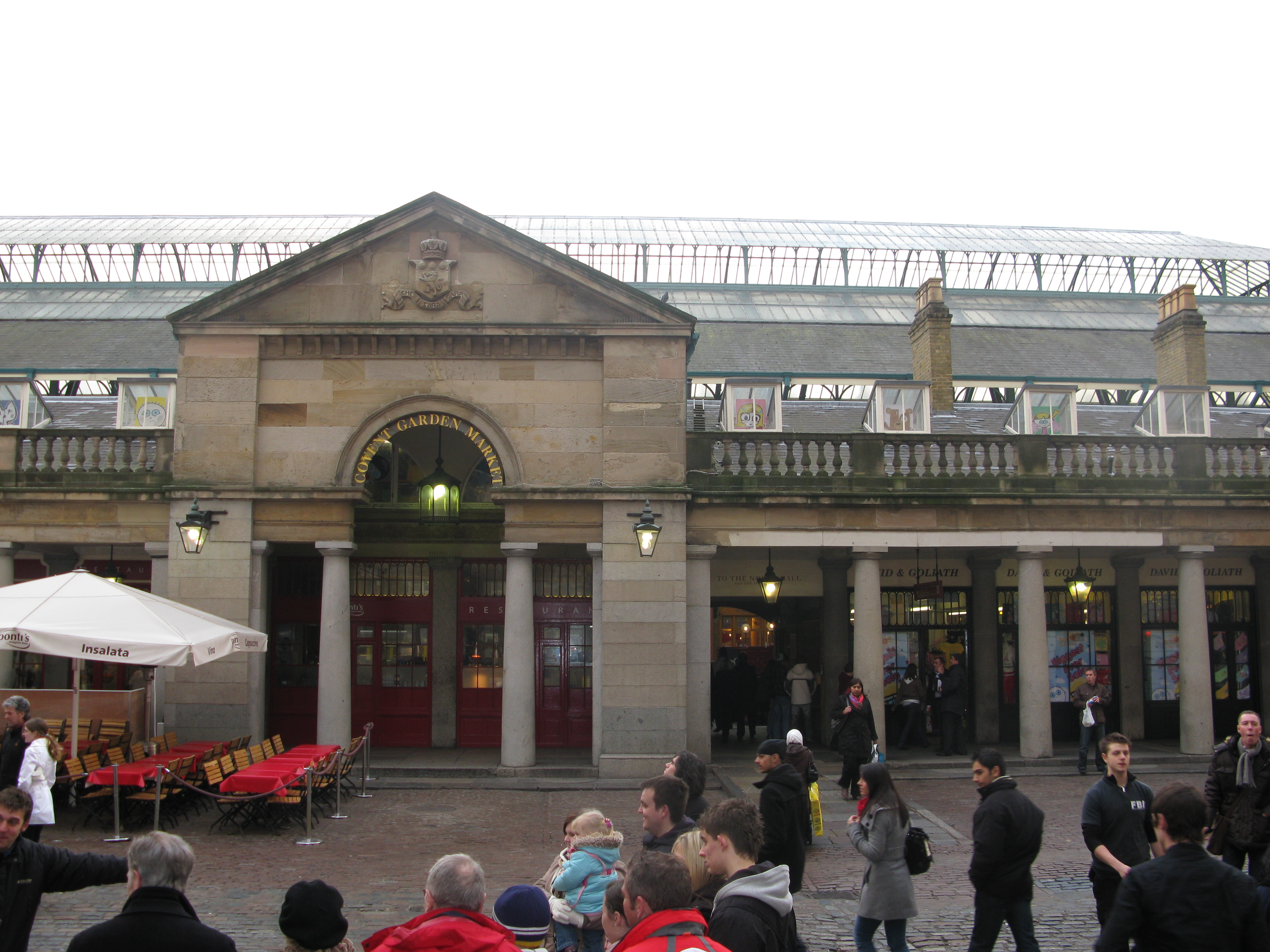 Entrance to Covent Garden, London, Great Britain